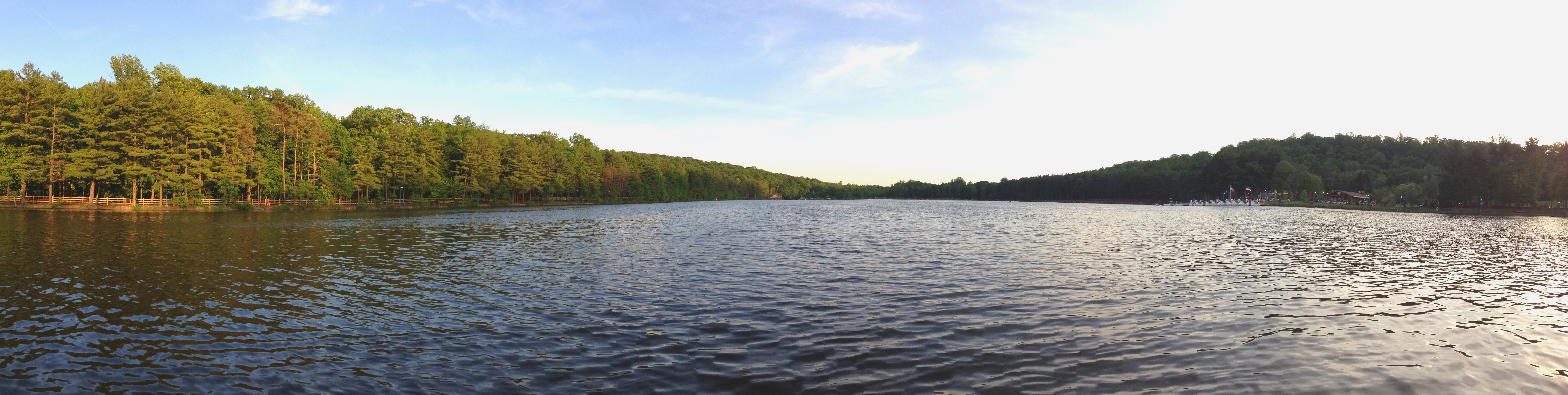 Panorama of Orange Reservoir from the middle of the reservoir looking southward direction. Essex County Paddle Boats facility is on the right.